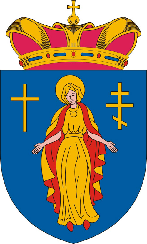 Coat of arms of Hungarian village Hercegszántó